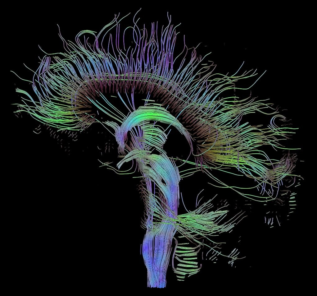 Visualization of a DTI measurement of a human brain. Depicted are reconstructed fiber tracts that run through the mid-sagittal plane. Especially prominent are the U-shaped fibers that connect the two hemispheres through the corpus callosum (the fibers come out of the image plane and consequently bend towards the top) and the fiber tracts that descend toward the spine (blue, within the image plane)